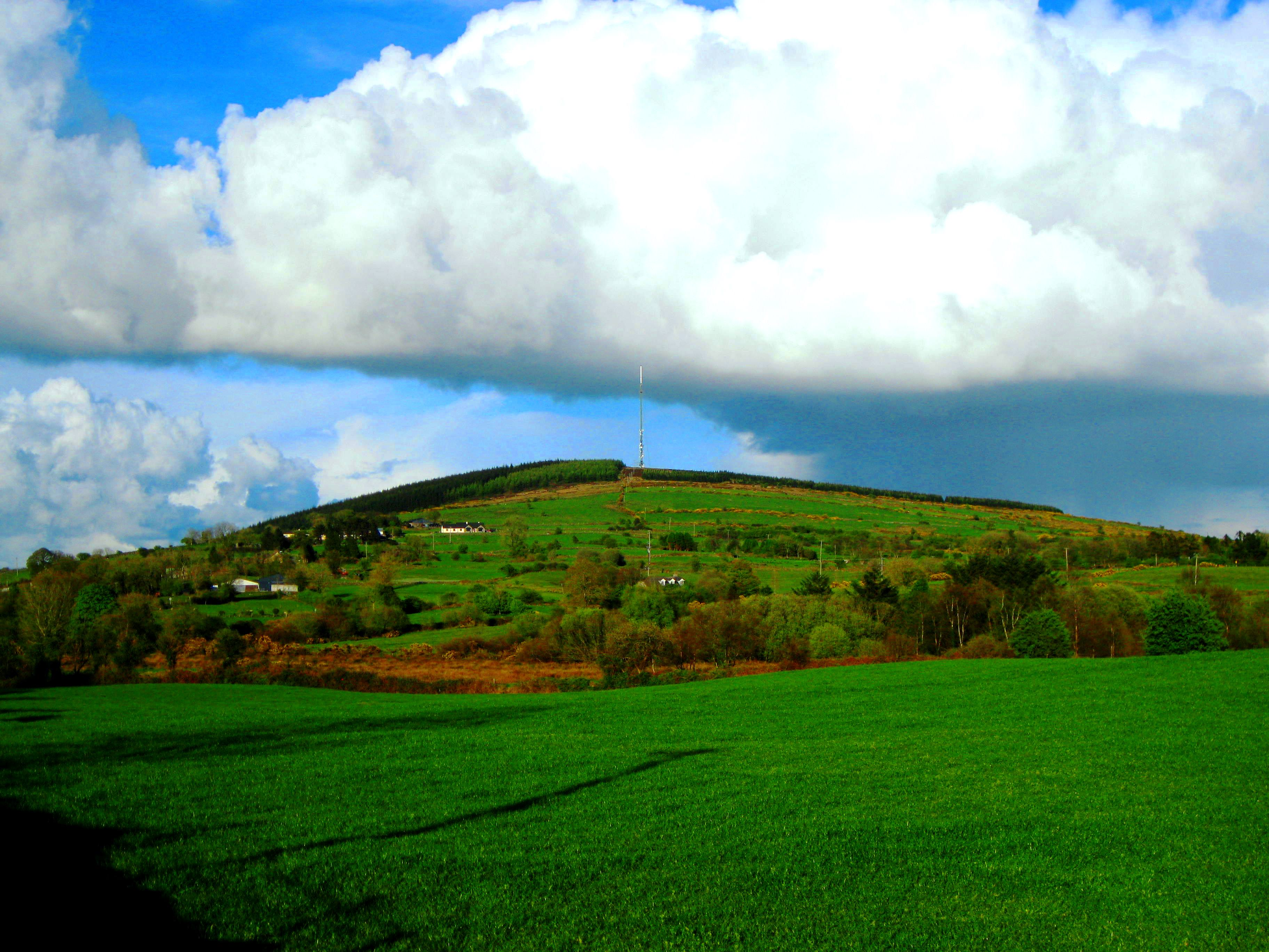 View from the West